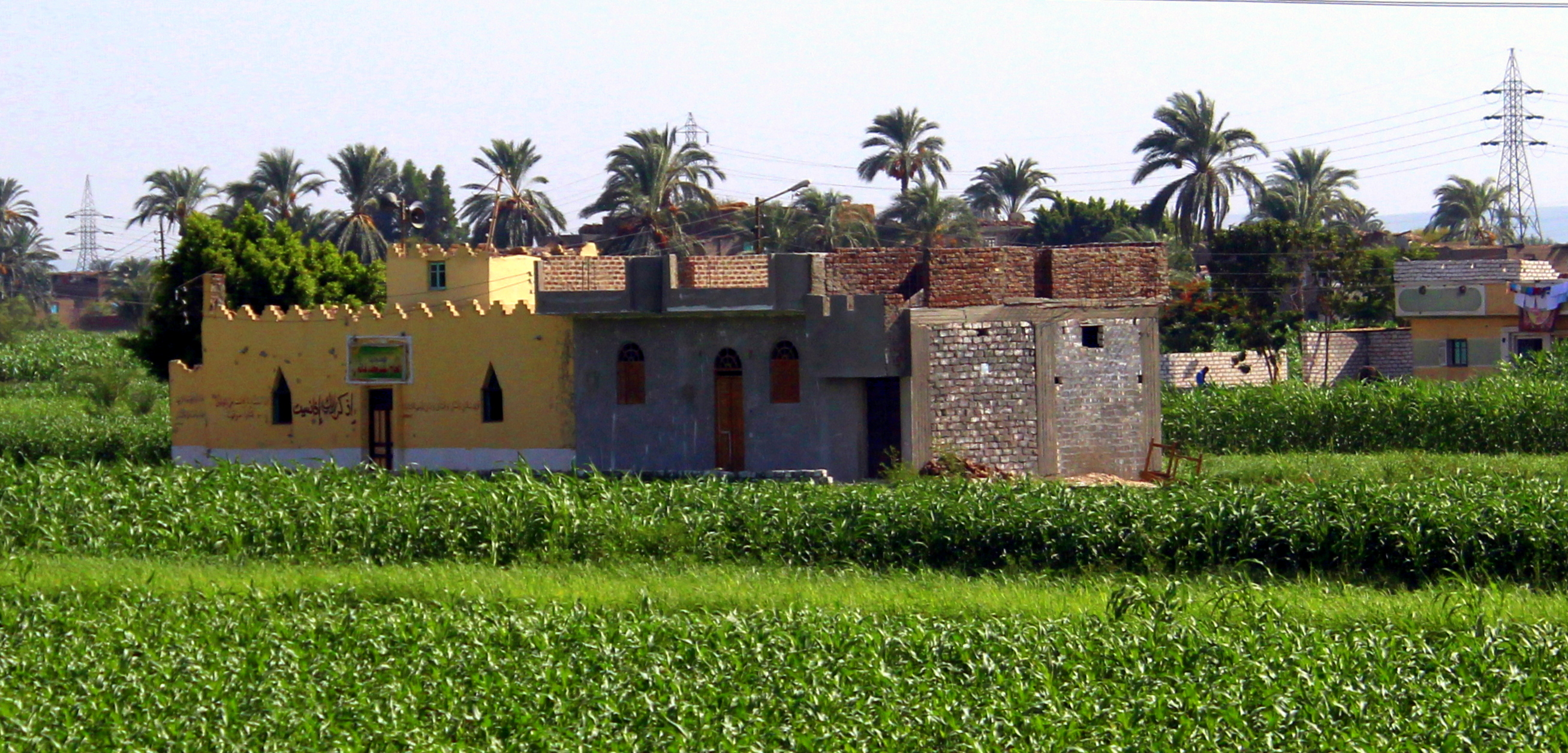 أحدى مزارع الريفية بمركز أبوتيج التابع لمحافظة اسيوط